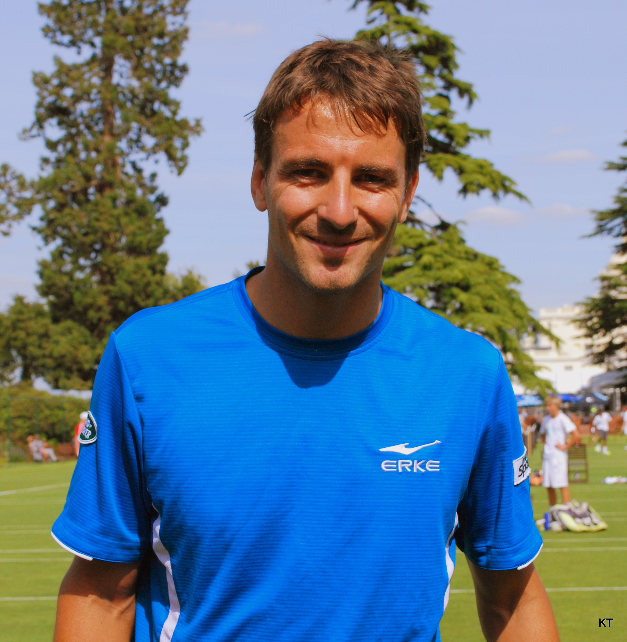 The Boodles, Stoke Park, 2011.